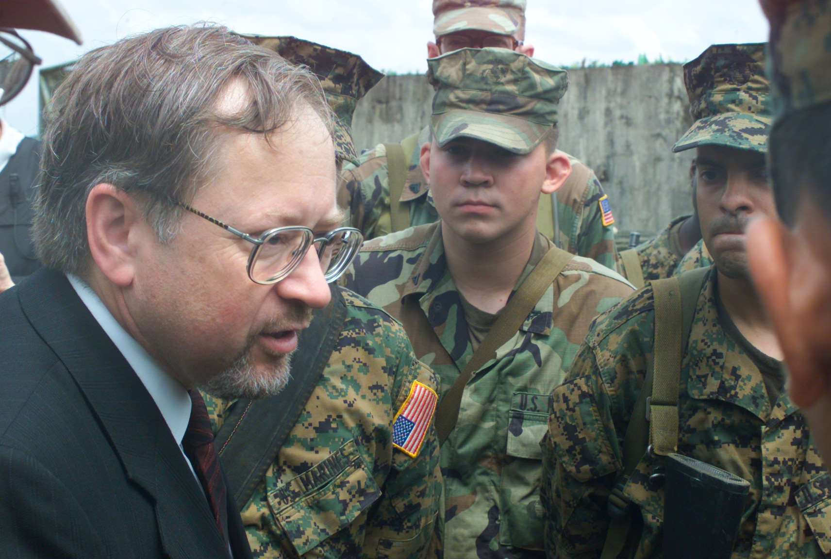 U.S. Ambassador John W. Blaney and U.S. Marines from 26th Marine Expeditionary Unit (Special Operations Capable) at Roberts International Airport in Liberia during the Second Liberian Civil War. 26th MEU(SOC) participated in Joint Task Force Liberia.